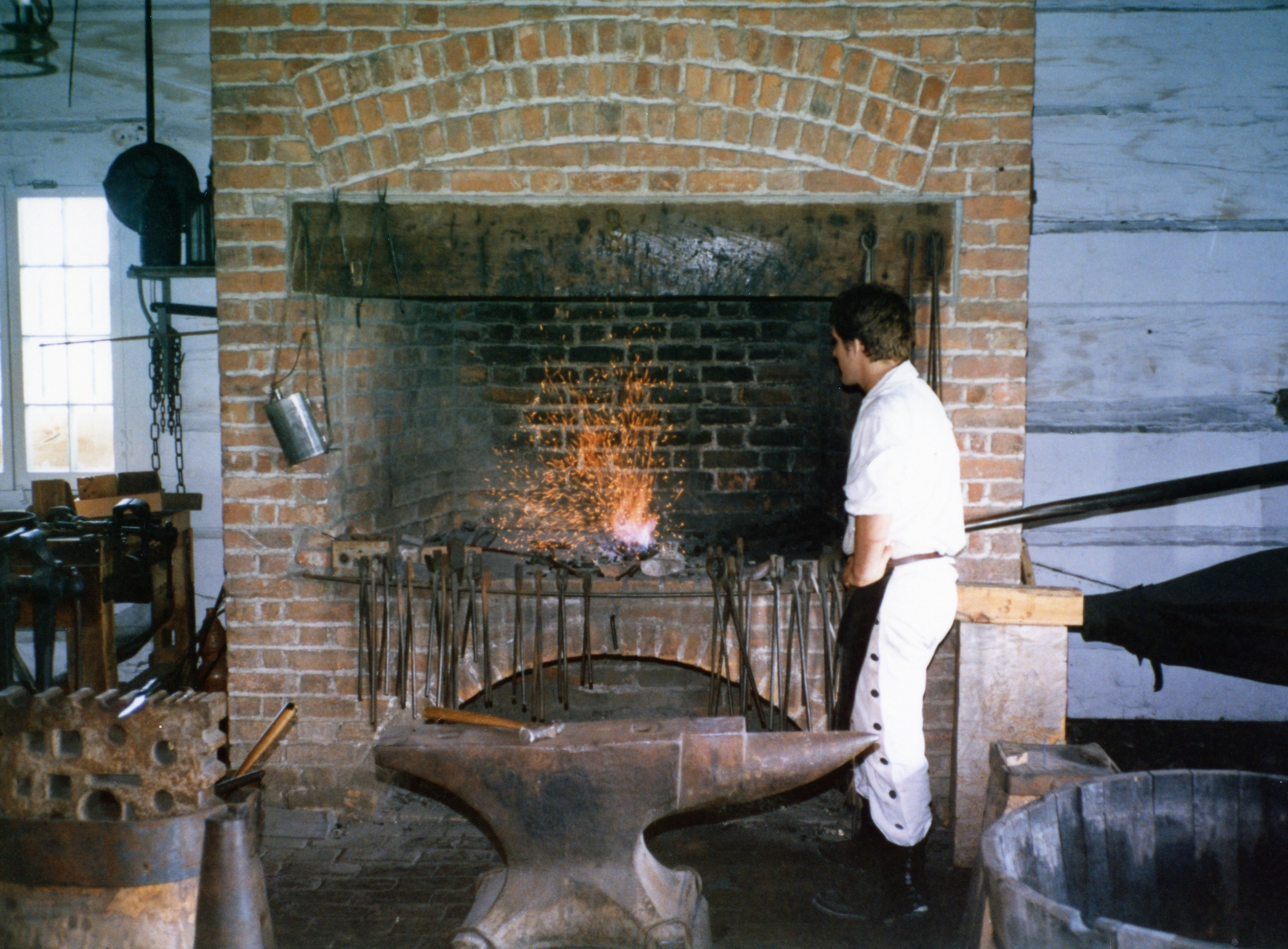 Blacksmith's shop in Fort George National Historic Site, Niagara-on-the-Lake, Ontario, Canada. August 1987